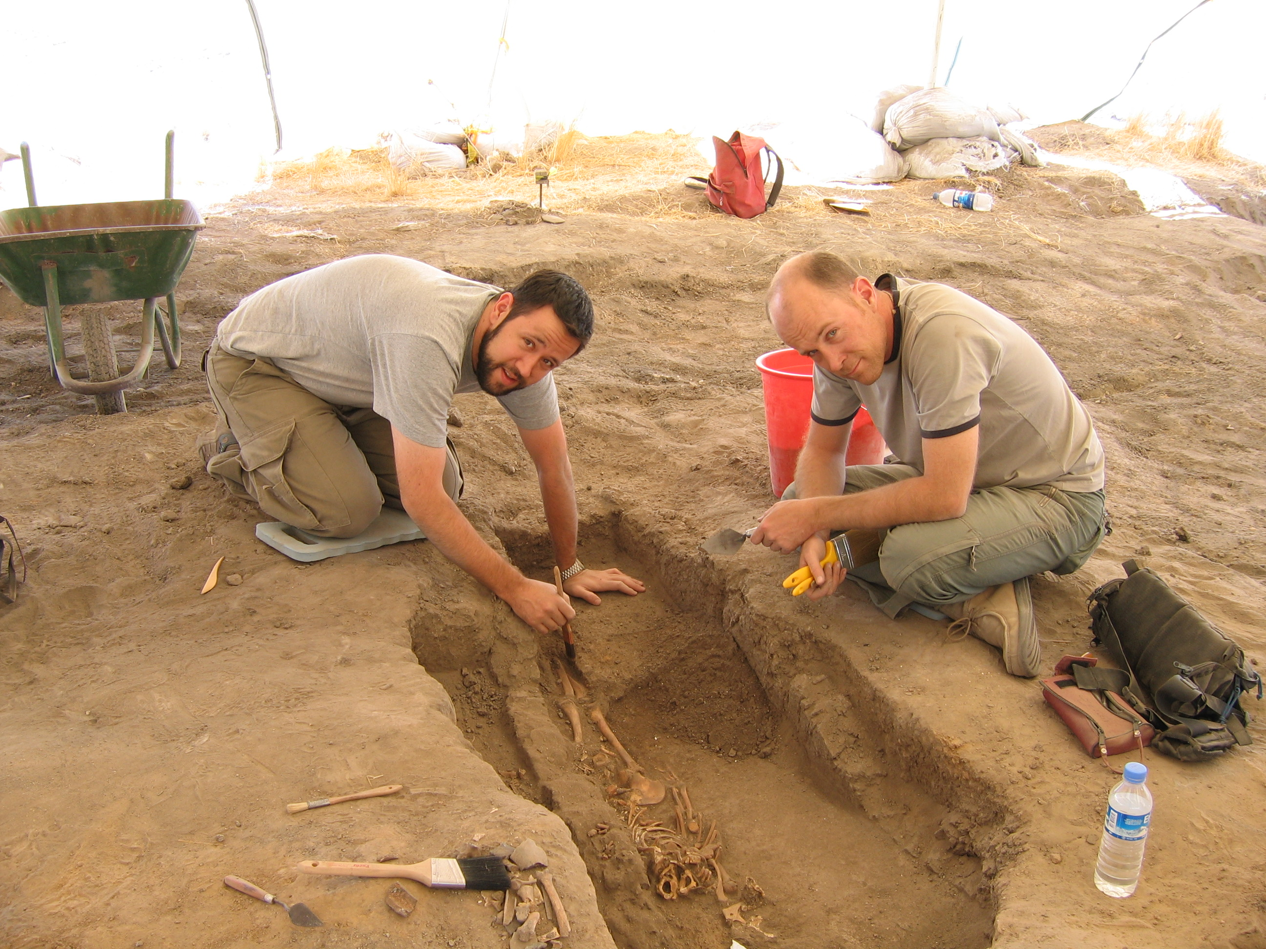 Patrick and Scott, excavating a child burial.